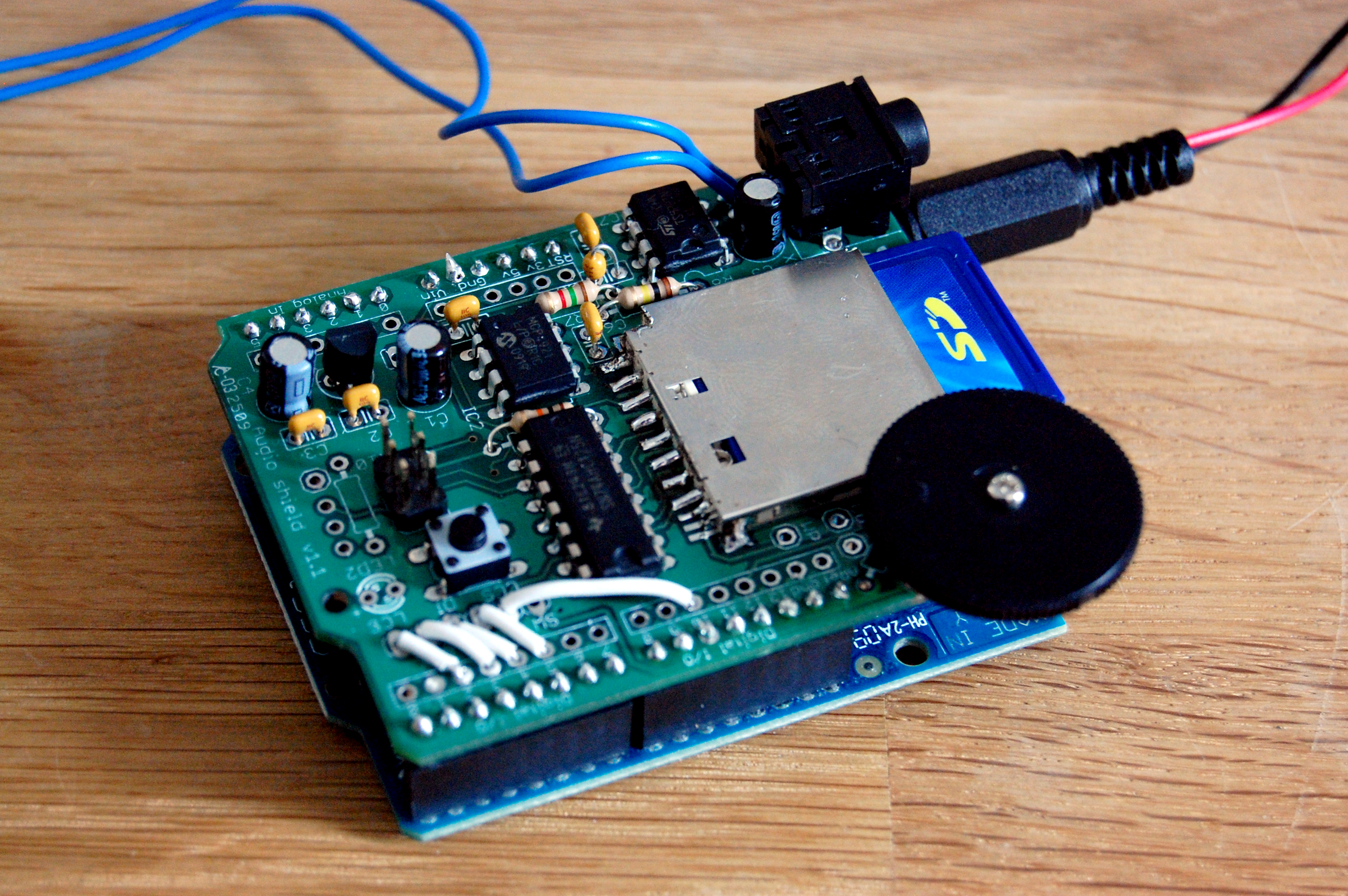 Portable audio player built with an Arduino Duemilanove, and Adafruit Waveshield, mylar speaker, 9v battery. From the process of developing and testing a circuit for a hauntology project called 'The Haunter'